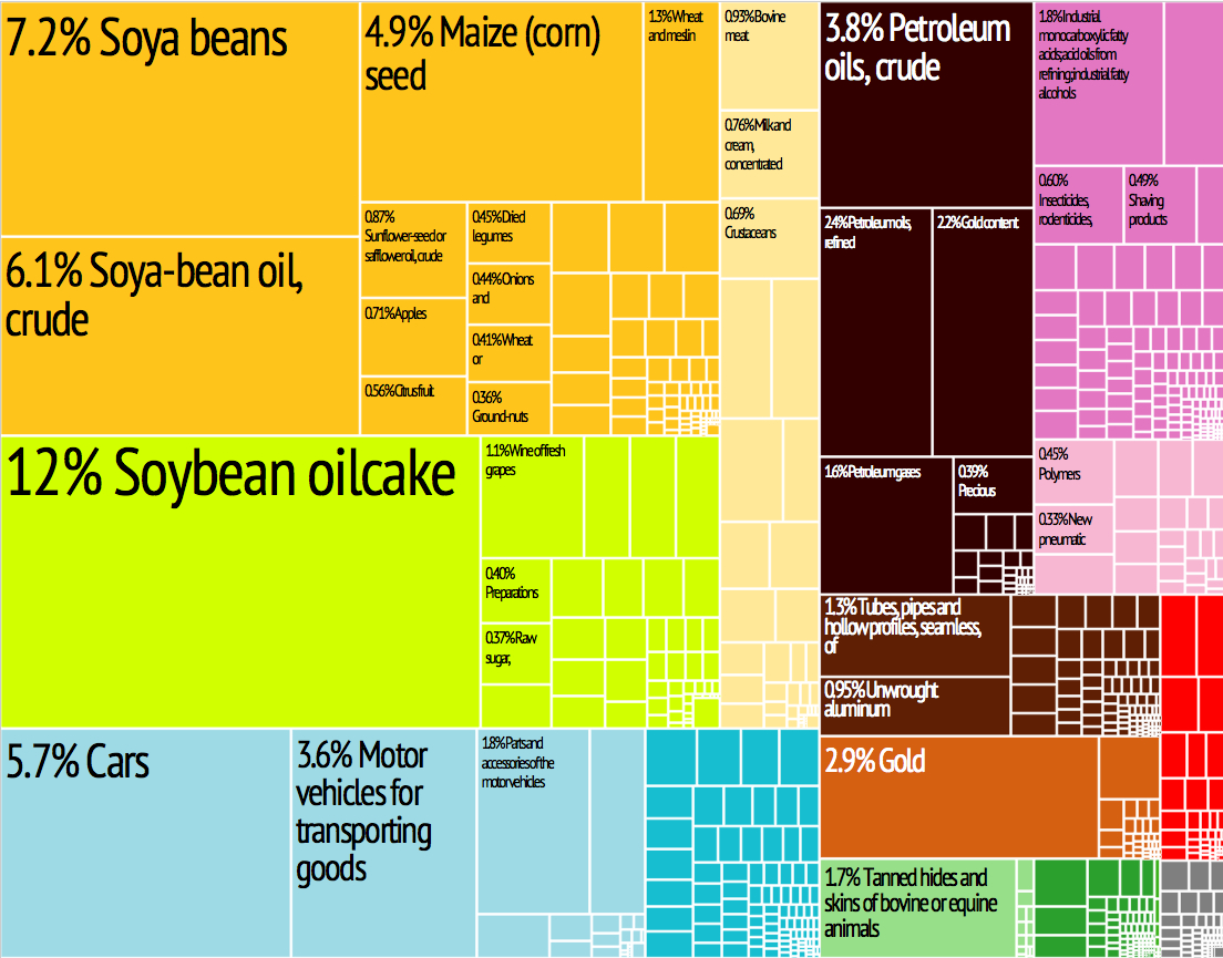 Argentina Export Map from MIT Harvard Economic Observatory